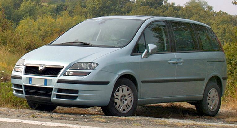 Fiat Ulysse